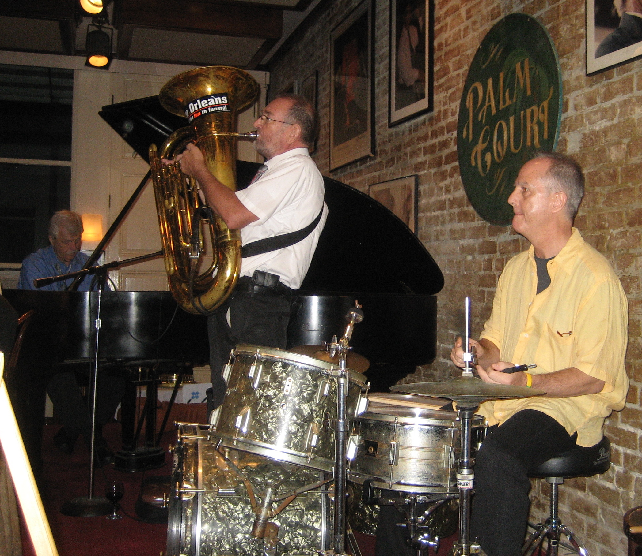 Three musicians of the rhythm section of a band at Palm Court Jazz Cafe, New Orleans. Musicians seen here are (left to right) Butch Thompson, piano; Bernie Attridge, tuba; Bruce Boyd Raeburn, drums. This was at a memorial/tribute gathering for the late jazz historian Richard B. Allen.